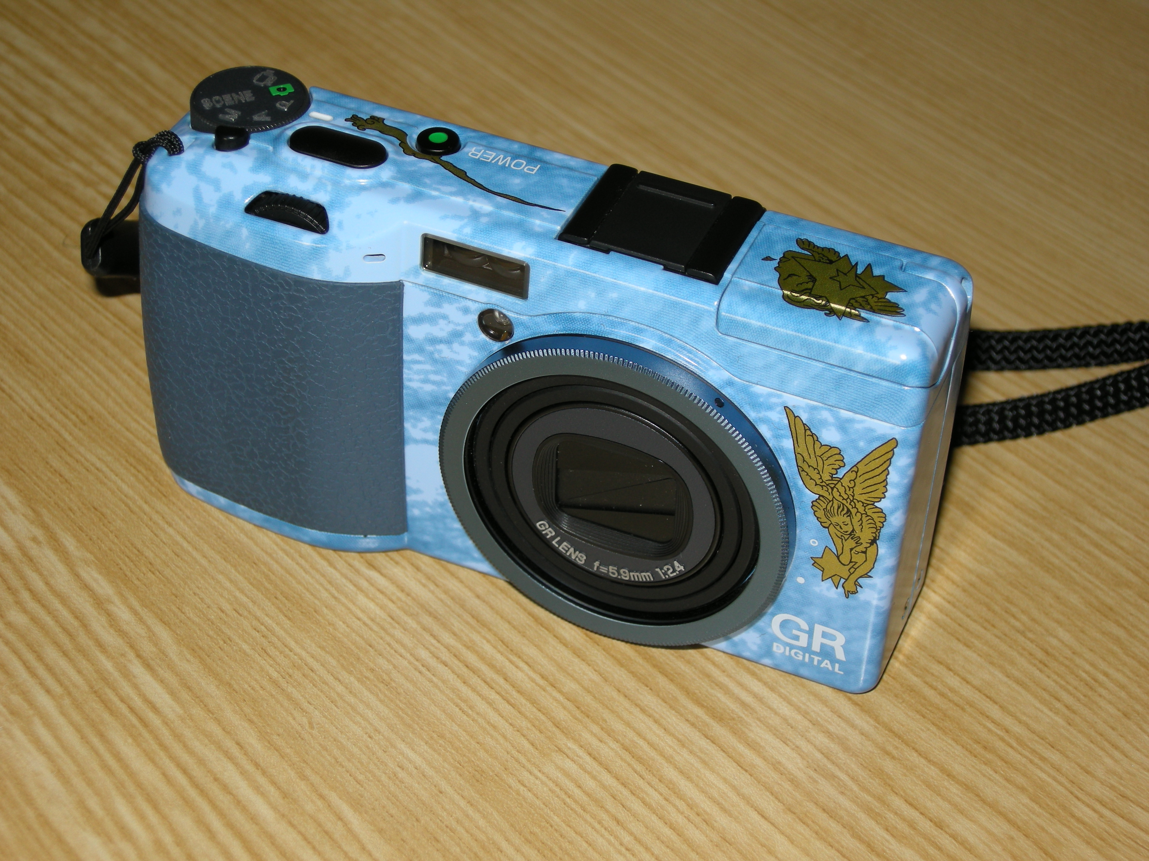 Ricoh GR Digital 1st anniversary model